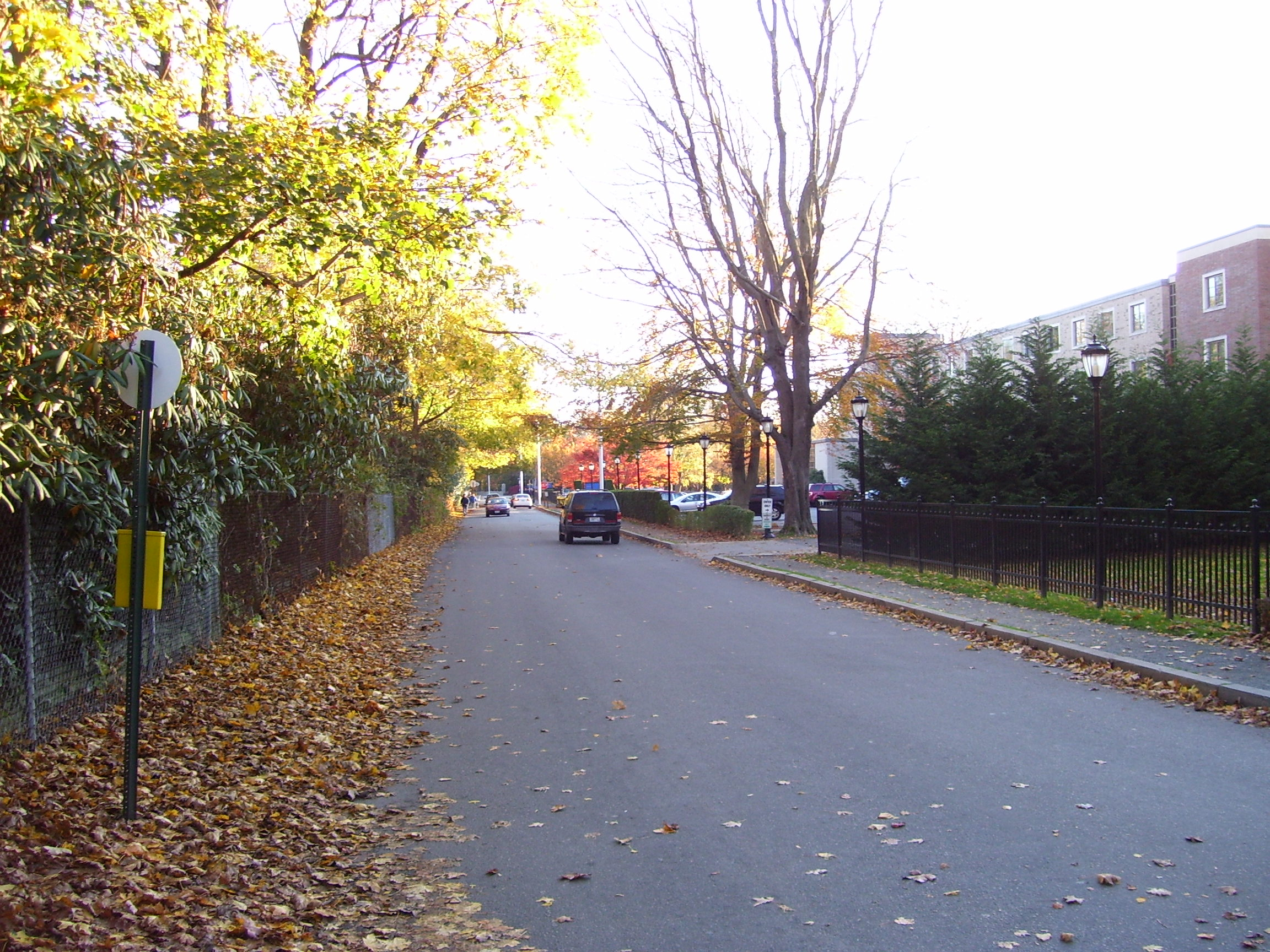 My 2008 photo of Ochre Point Avenue in Newport, Rhode Island.